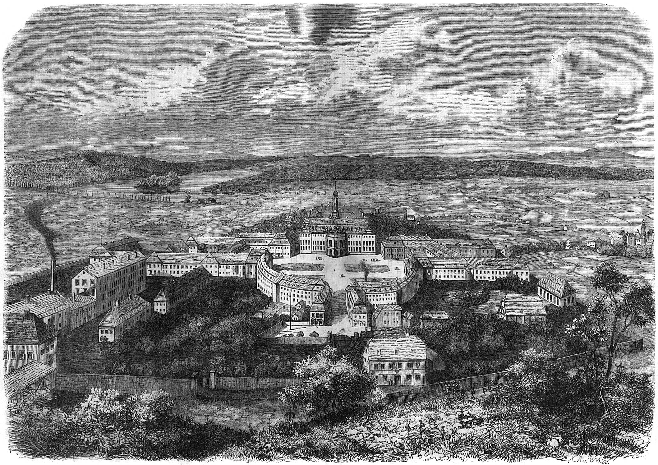 caption: "Schloß Hubertusburg."